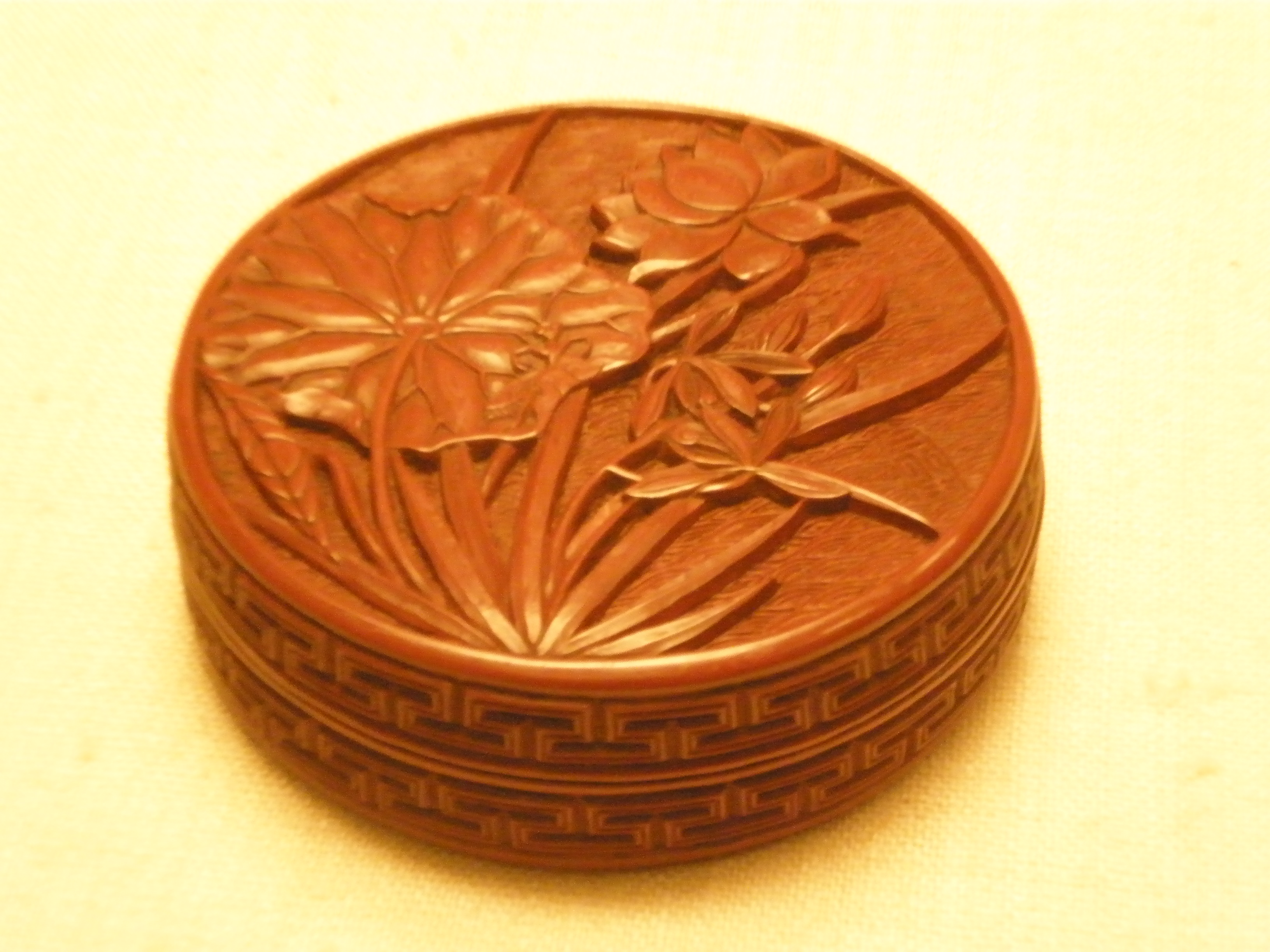 Incense container 19th century Signed Zokoku and Sansha; Style of Tamakaji Zokoku (1805-1869) Wood covered in carved red lacquer Incense container, wood covered in carved red lacquer with a design of lotuses, cicadas, chrysanthemums and butterflies, signed Zokoku and Sansho, Japan, 19th century. Alexander Gift Collection ID: W.104-1916 This photo was taken as part of Britain Loves Wikipedia in February 2010 by David Jackson.